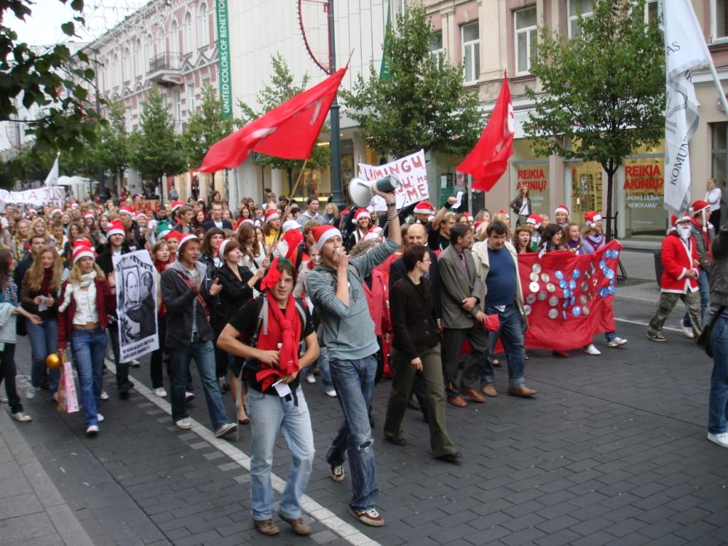 Photo of people marching with banners Wikipedia caption: Students and lectures participating in a New study year's march on the 1st. of September, 2006